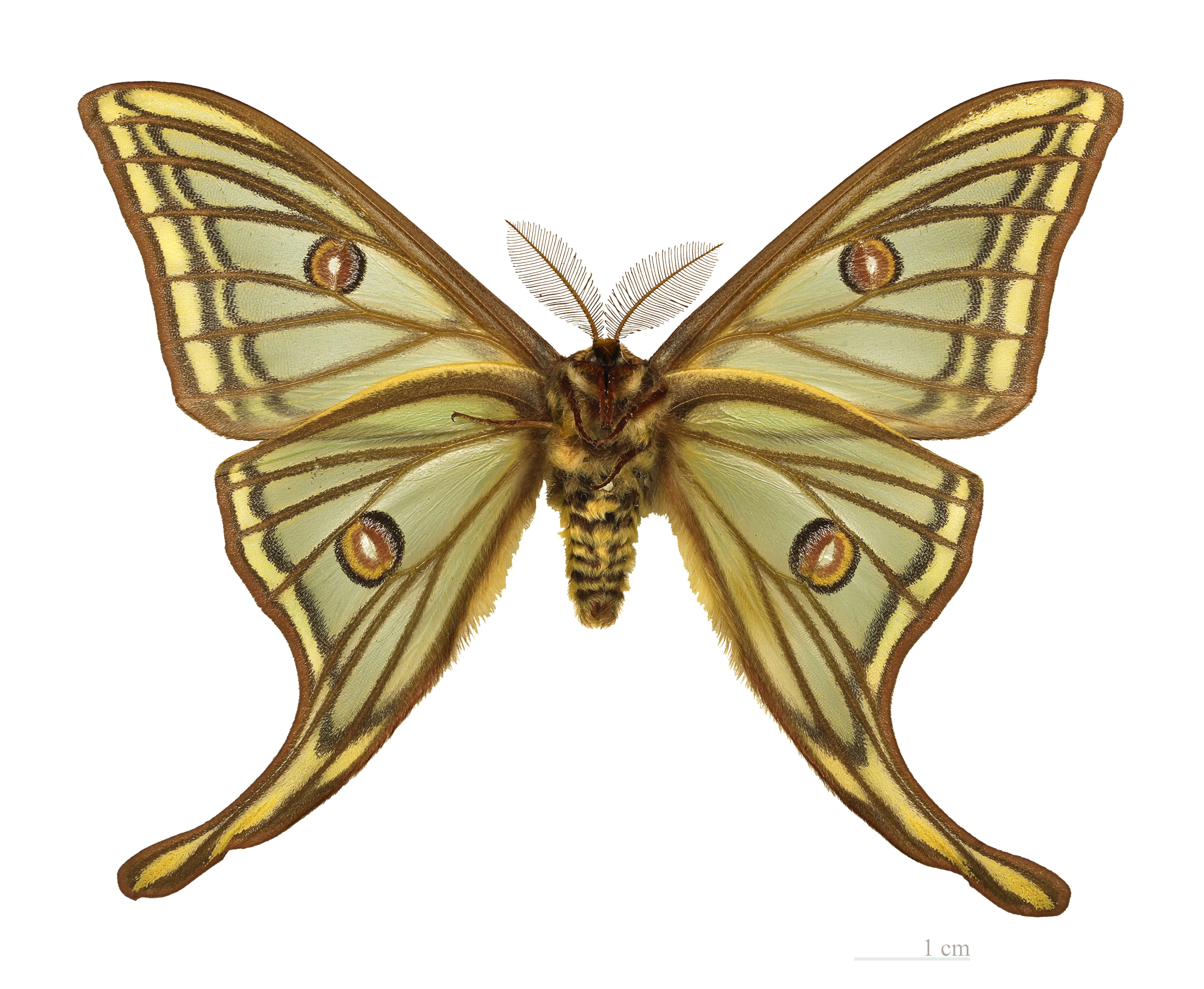 Spanish Moon Moth ♂ - △ Ventral side Locality: Roncal, Navarra, Spain